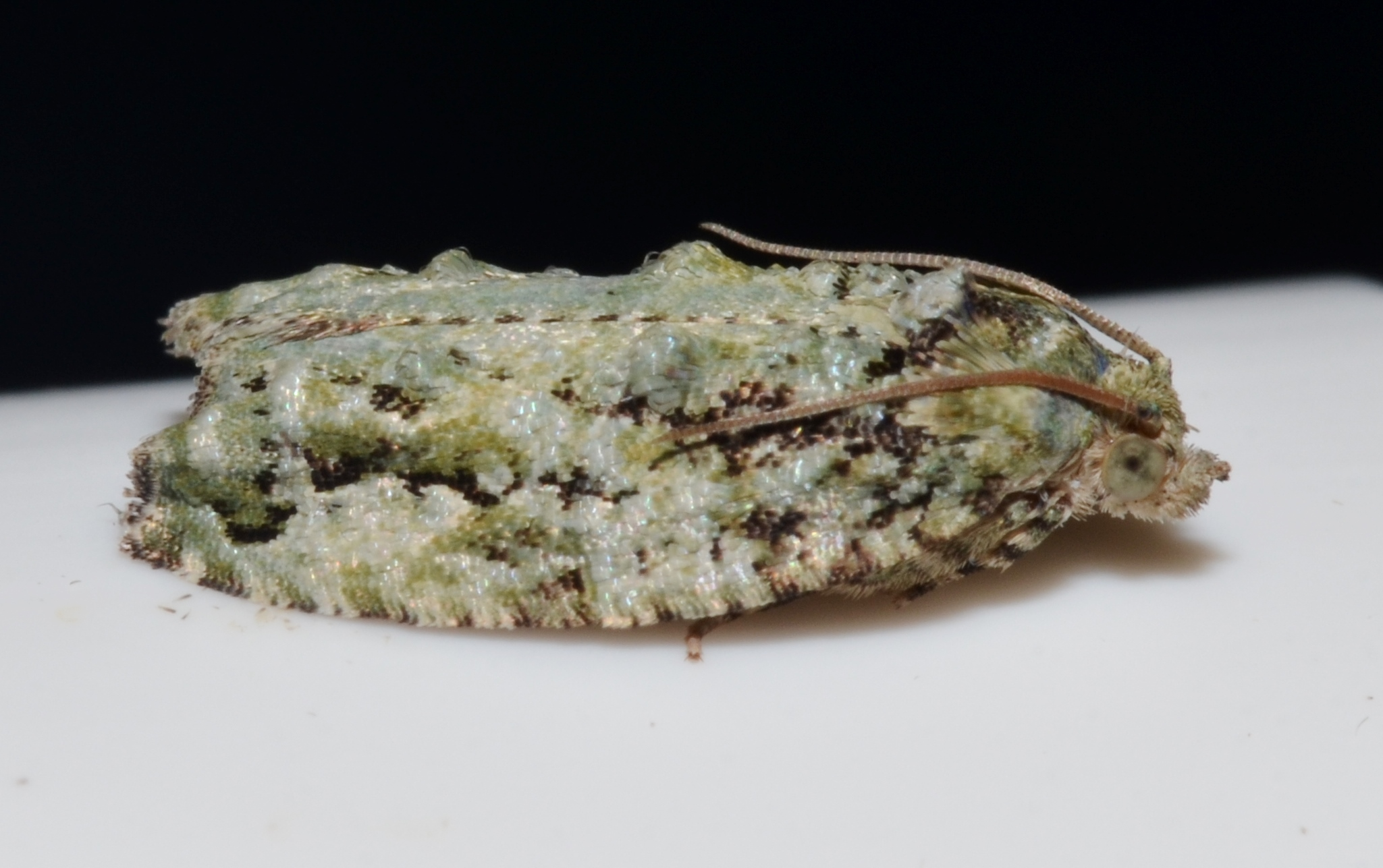 Cuivre River State Park 6/27/15